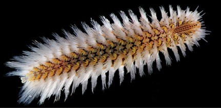 Notopygos ornata. Photo: Leslie Harris.